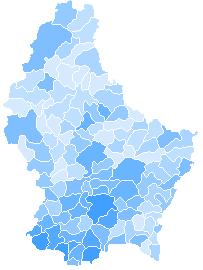 A map of communes of Luxembourg after mergers of 2006-01-01, colour-coded by population. Population is denoted by eight different shades of blue; in order of increasingly darker shades, the lower bounds (in people) are: 0, 1000, 1500, 2000, 3000, 5000, 7500, 15000.